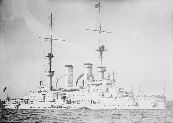 The German Imperial Navy battleship SMS Wittelsbach before the First World War.